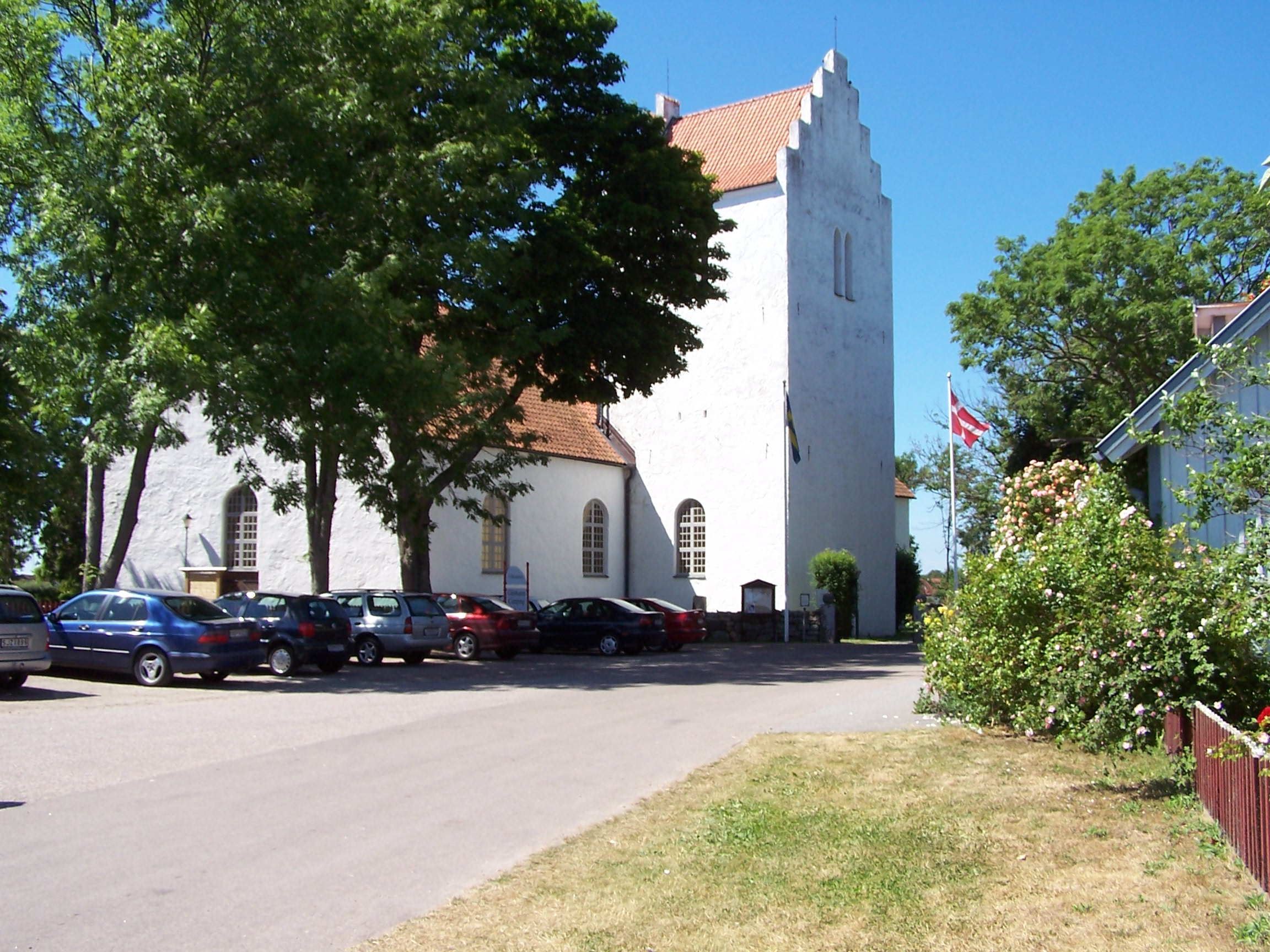 Kristianopel church, Kristianopel parish.